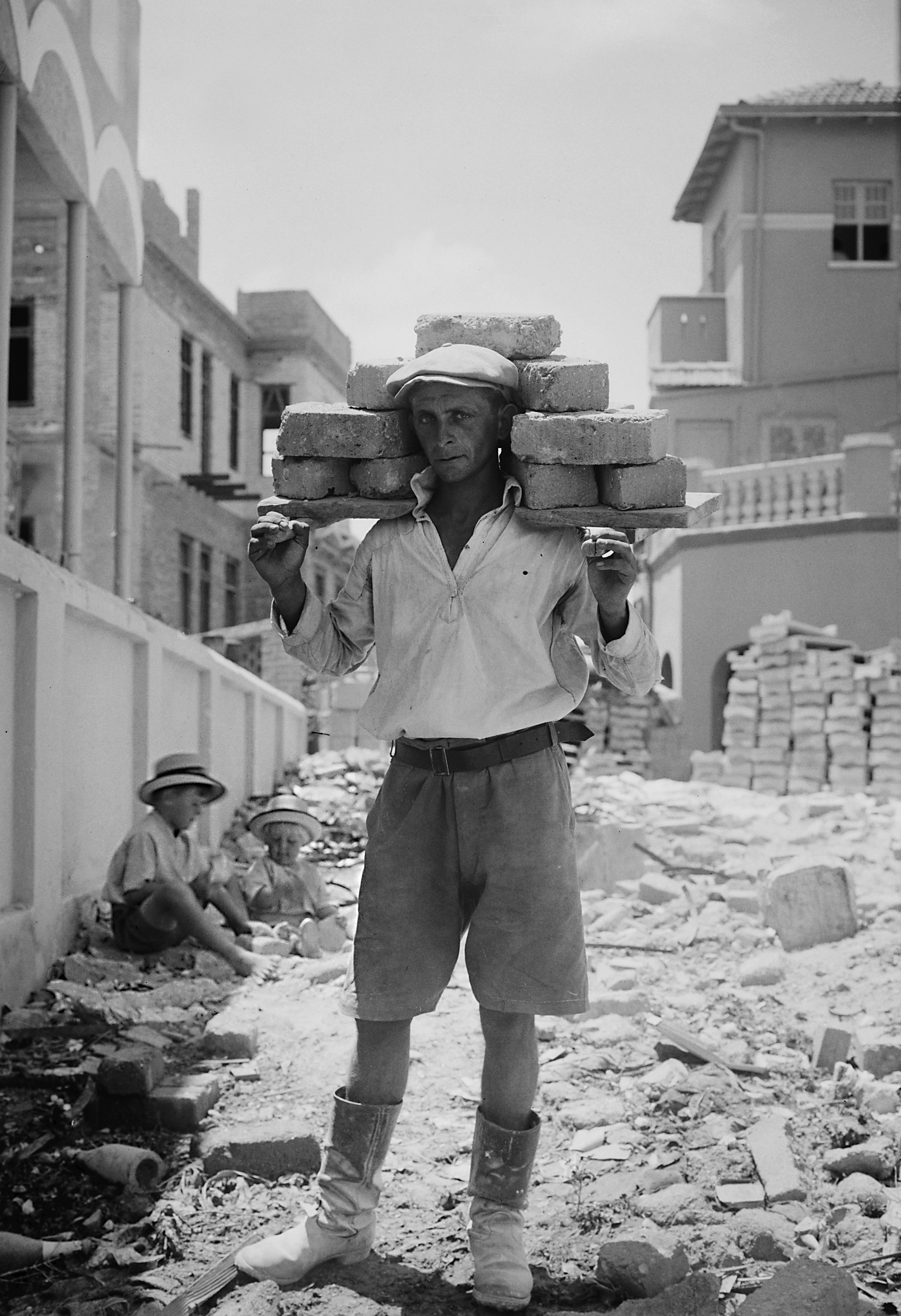 Jewish colonies and settlements. Tel Aviv. Carrying bricks. Digitized from 1 negative : glass, stereograph, dry plate ; 5 x 7 in.